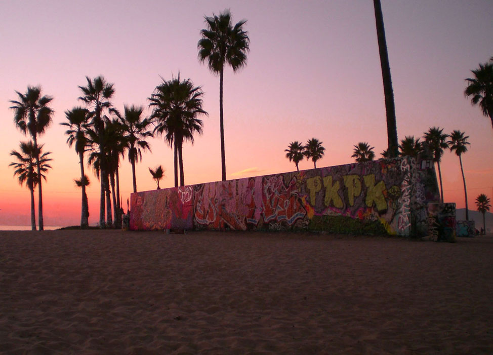 hall of fame at venice beach, southern california, usa